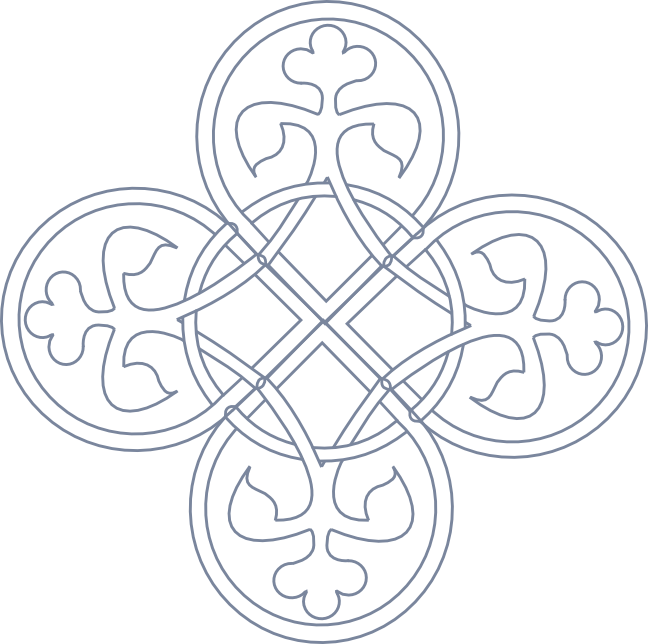 Technical Drawing and Creative technical art, multiple uses. Ornament for Windows or fences, books.